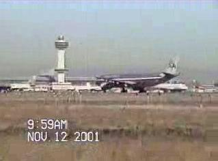 American Airlines Flight 587, recorded by construction workers at an airport site. According to the source, the time shown in the image is not the actual time of day.